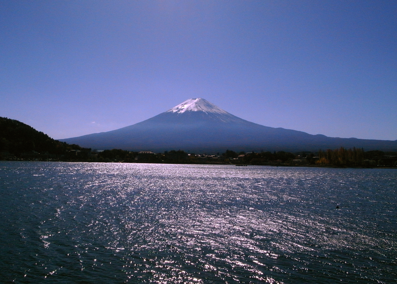 Mt. Fuji view from Ubuyagasaki, Lake Kawaguchi, Yamanashi, Japan.